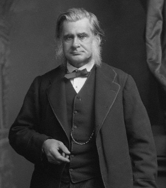 Thomas Henry Huxley, half-plate glass negative.